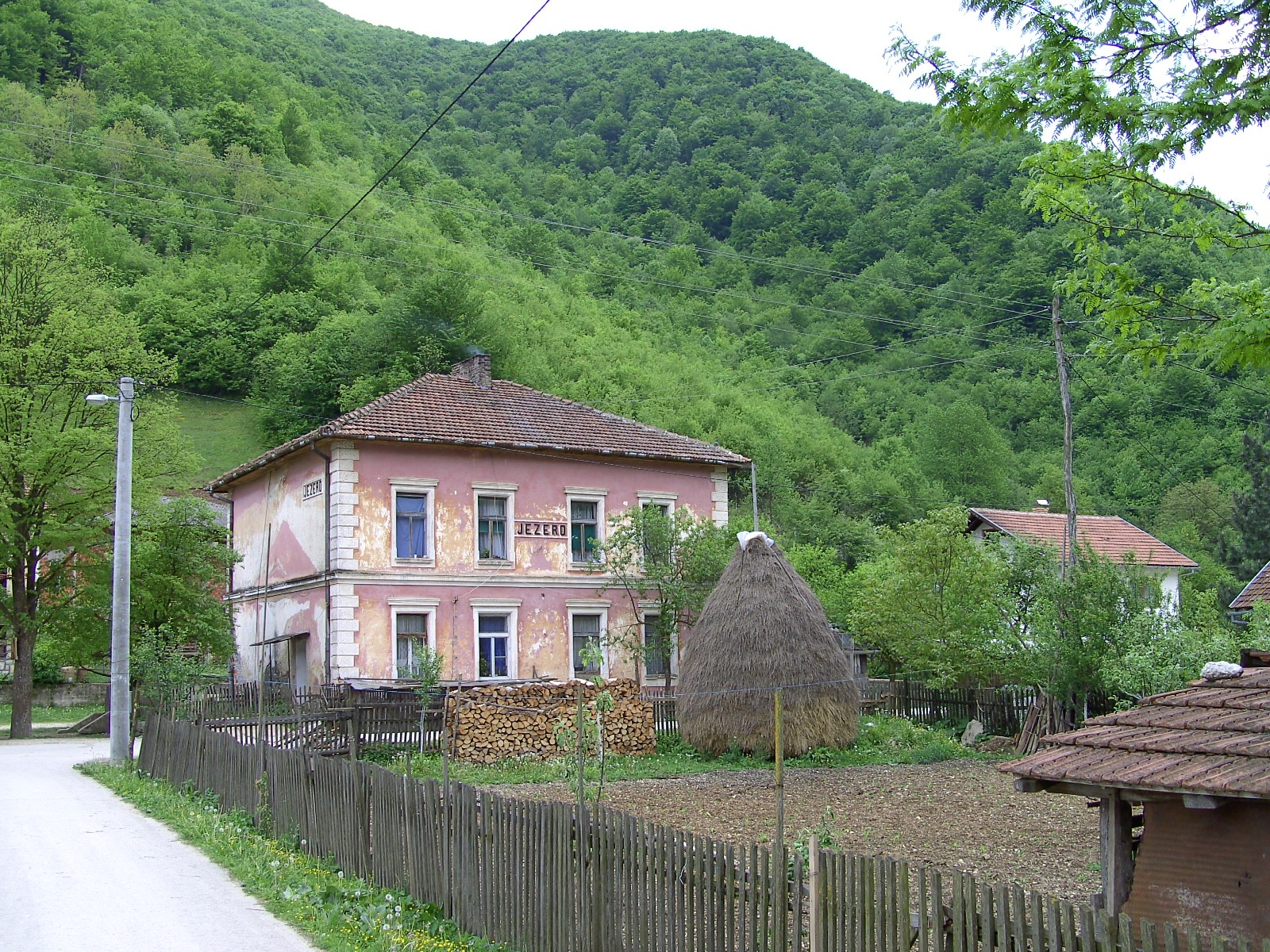 Former train station builidng in the town of Jezero near Jajce, RS, BiH